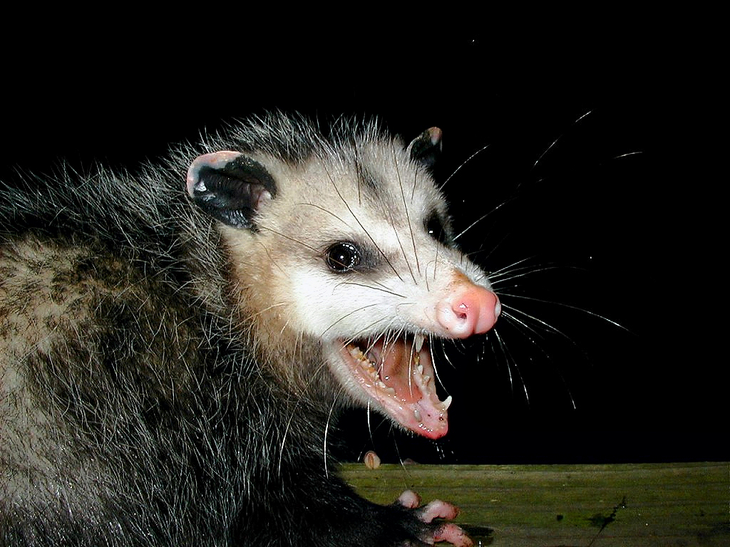 Virginia Opossum Sometimes, Opossums come up from the woods to eat the cat food we leave out for the cats. I caught this one red-handed. I picked him up by the tail and put him on the deck railing for a close-up shot. This particular specimen was the biggest, fattest, ugliest Opossum I've seen to date. Also, don't try this at home. I have experience handling these creatures, you probably don't. I've picked up tons of them and have never been bitten. But the fact remains that they can be extremely vicious, and their teeth are very sharp. Luckily, Opossums don't normally carry rabies, because their body temperature is too low to support the virus.